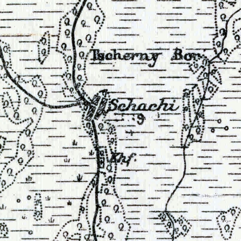 Shakhy on the map "Karte des Westlichen Russlands", U 35, 1917. According to Kujawsko-Pomorska Digital Library the map is in the public domain.